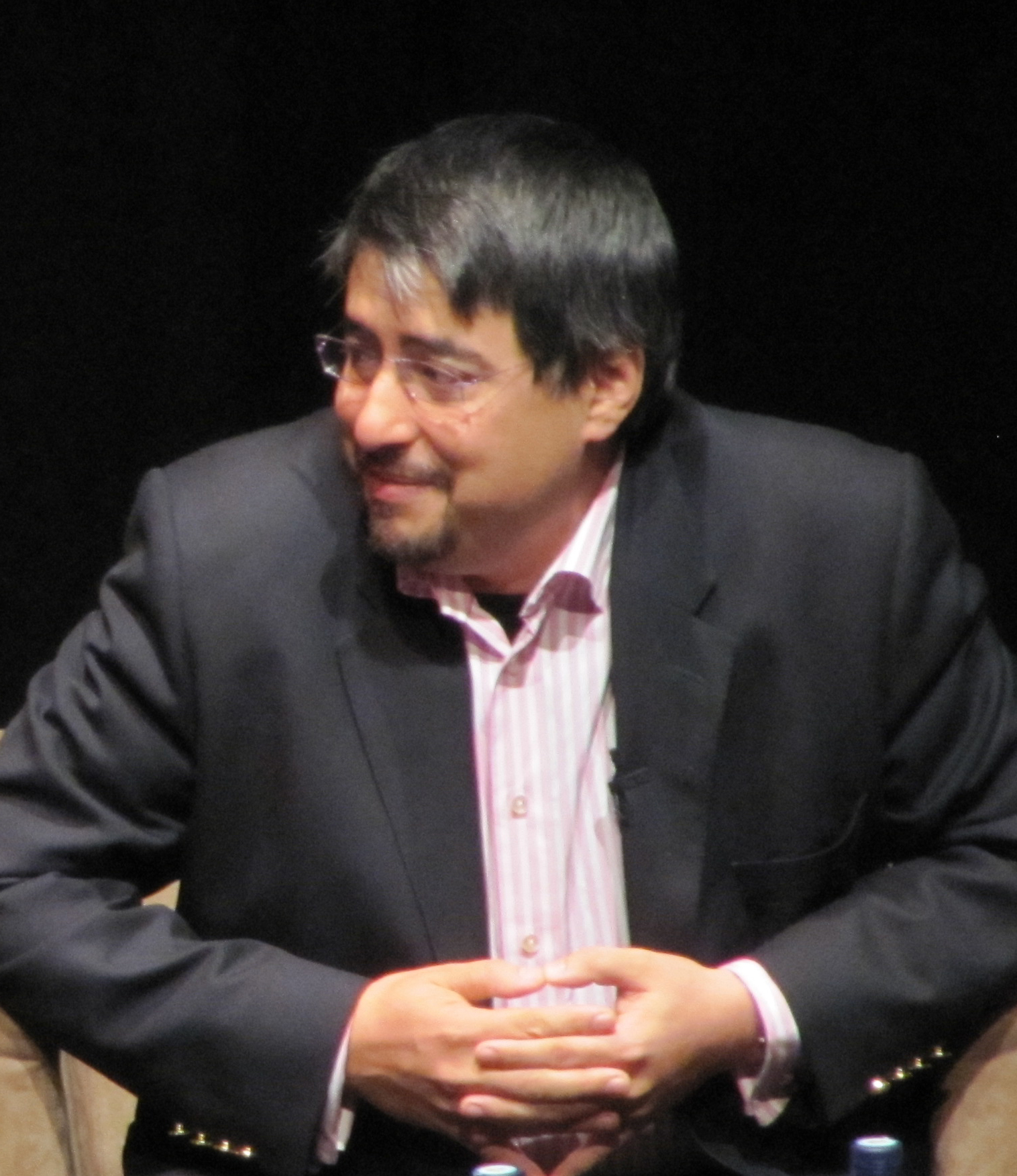 Bill Liao